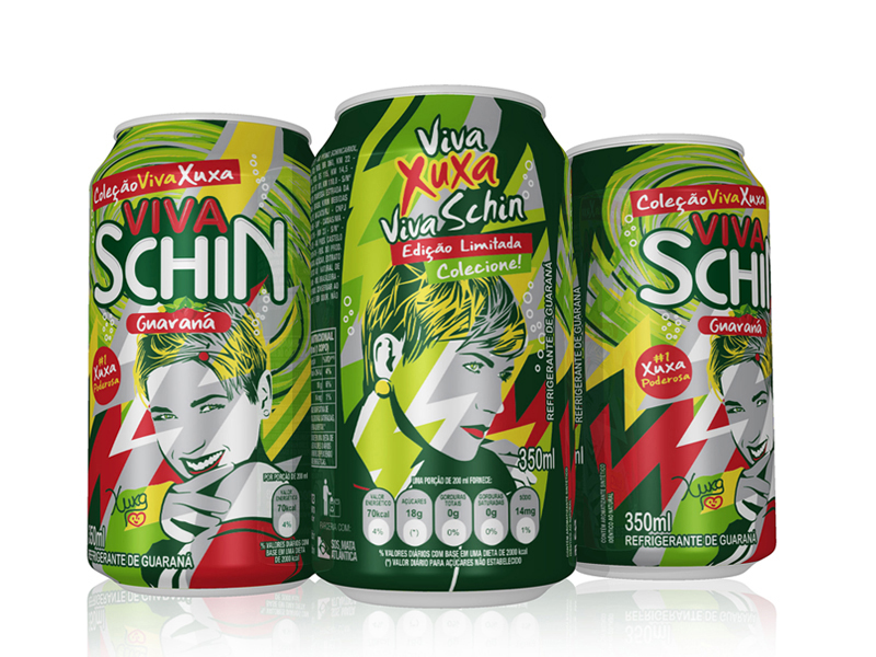 Viva Schin lança linha de embalagens colecionáveis inspirada na Xuxa Meneghel.